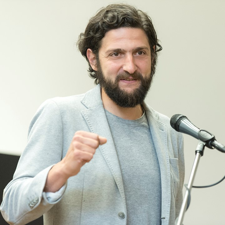 Lecture 2017 in Osnabrueck